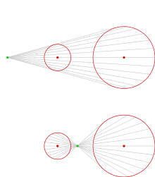 fgft hg gh